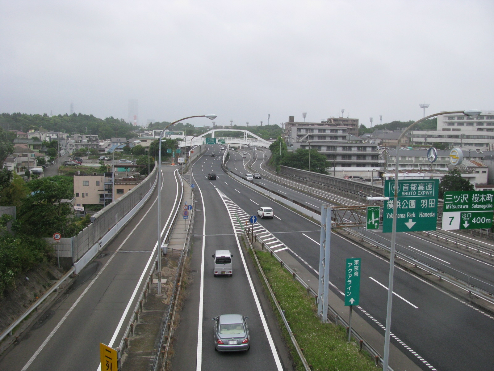 The Hodogaya interchange of the Daisan Keihin, National Route 466. This interchange is located in Hodogaya-ku, Yokohama, Kanagawa, Japan.